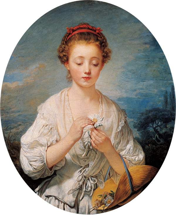 Simplicity